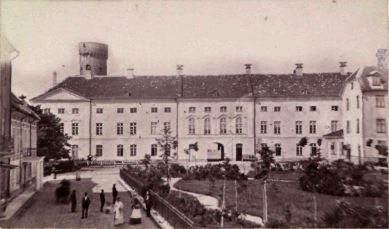 Administrative building of the Governorate of Estonia, part of the Toompea Castle. The Alexander Nevsky Cathedral was later (1894–1900) built into the park seen in the foreground.